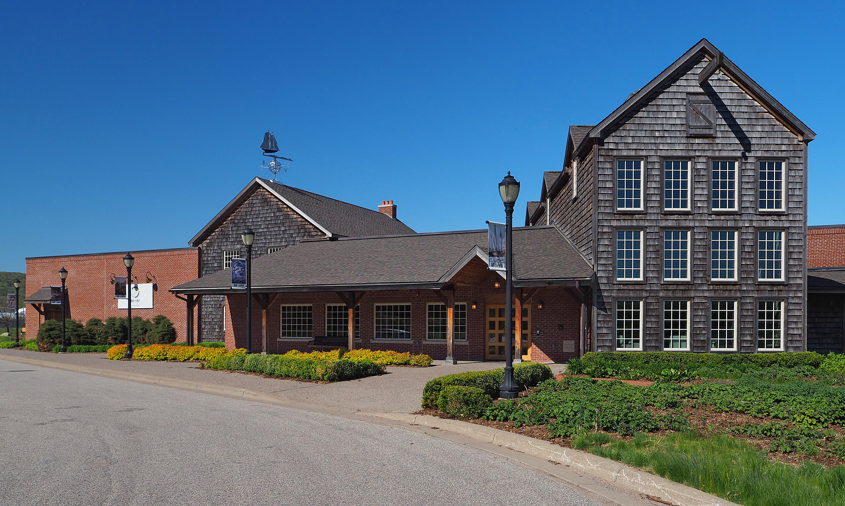 Minnesota Marine Art Museum, 800 Riverview Dr, Winona, Minnesota, USA. Viewed from the east.